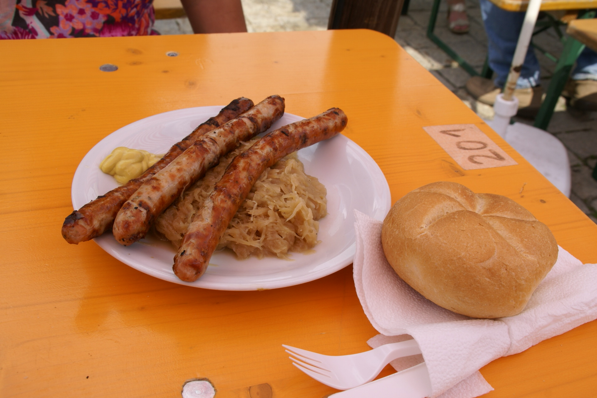 Bratwurst Nürnberg style with sauerkraut served at the Kirwa in Sulzbach-Rosenberg (Germany)